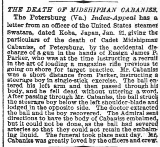 A report of Charles Cabaniss' death in The New York Times.